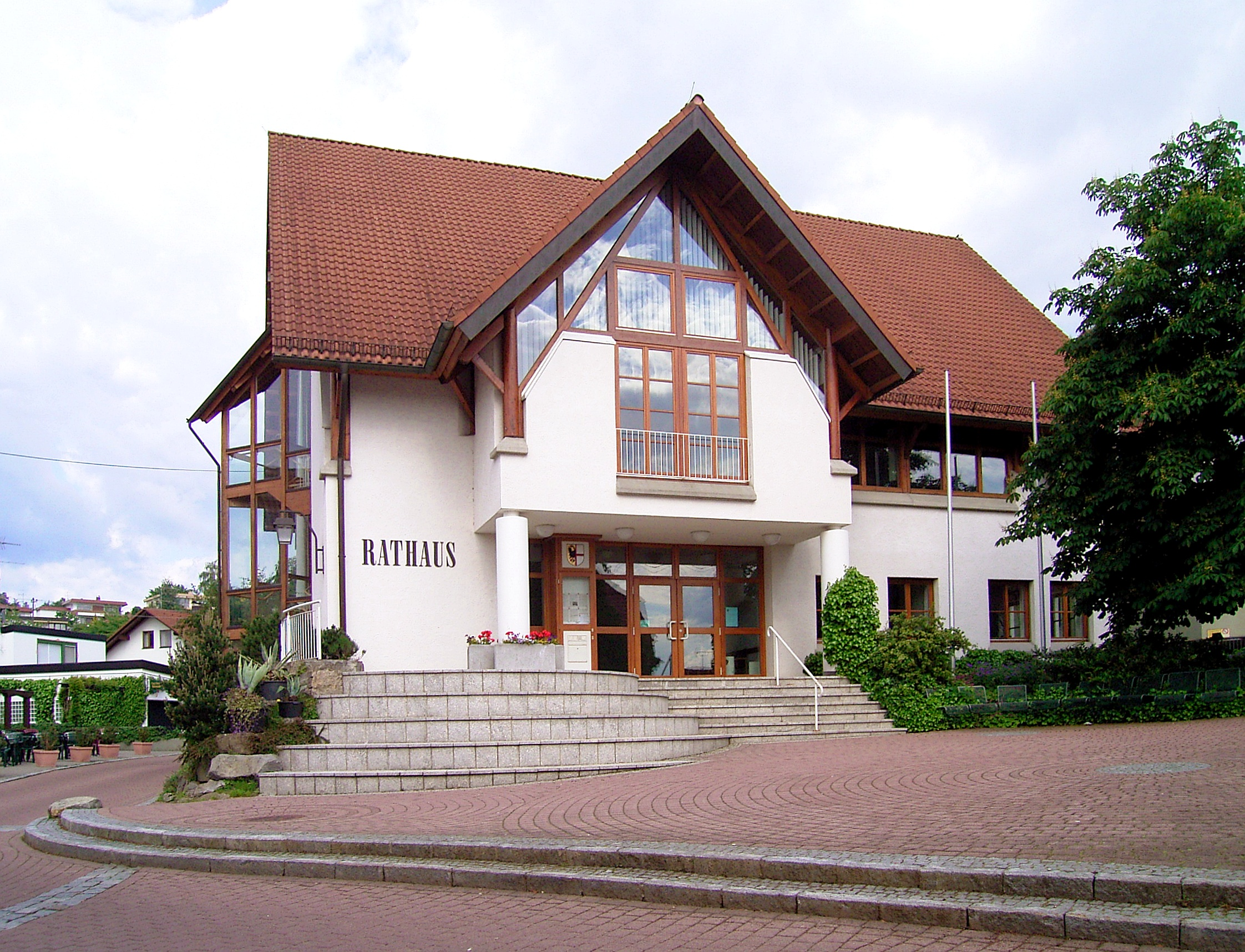 The town hall of Daisendorf, Germany